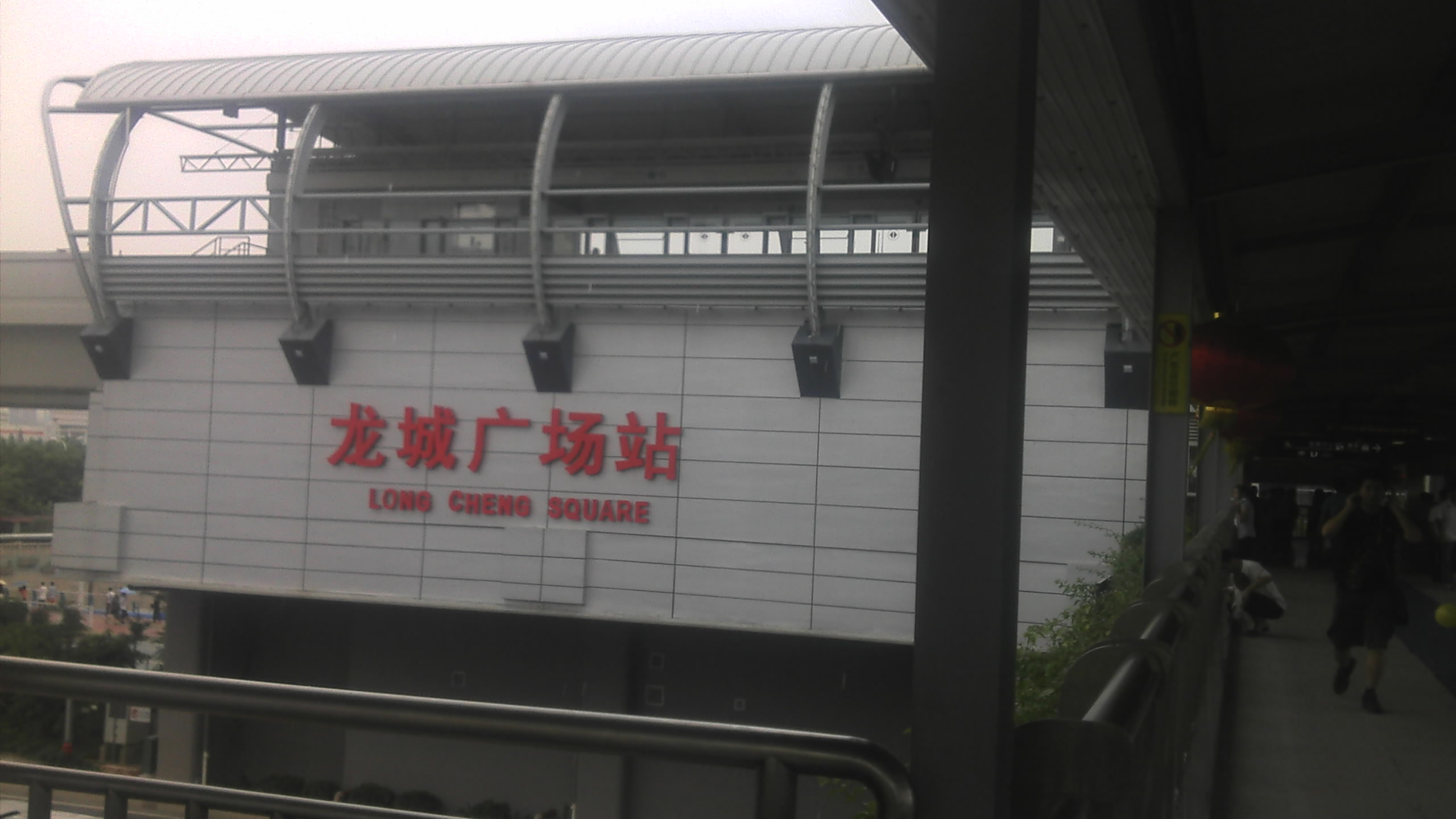 This photo was taken as Oct 2, 2011.